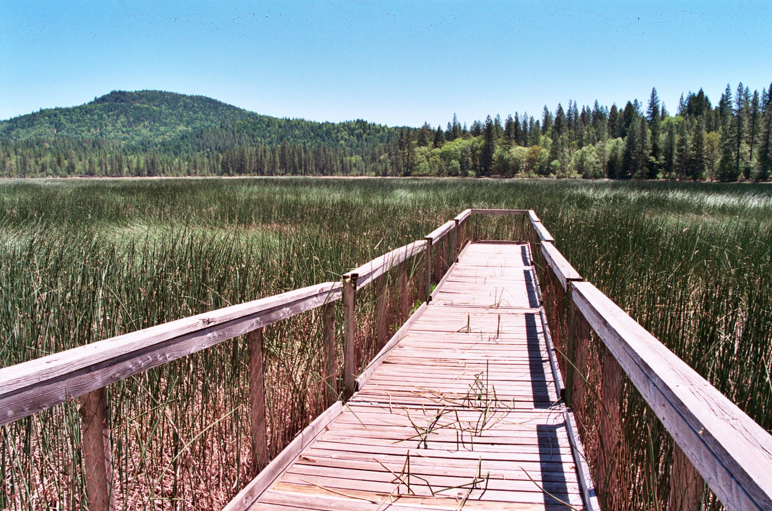 Boardwalk into Boggs Lake vernal pool area. Lake County, CA